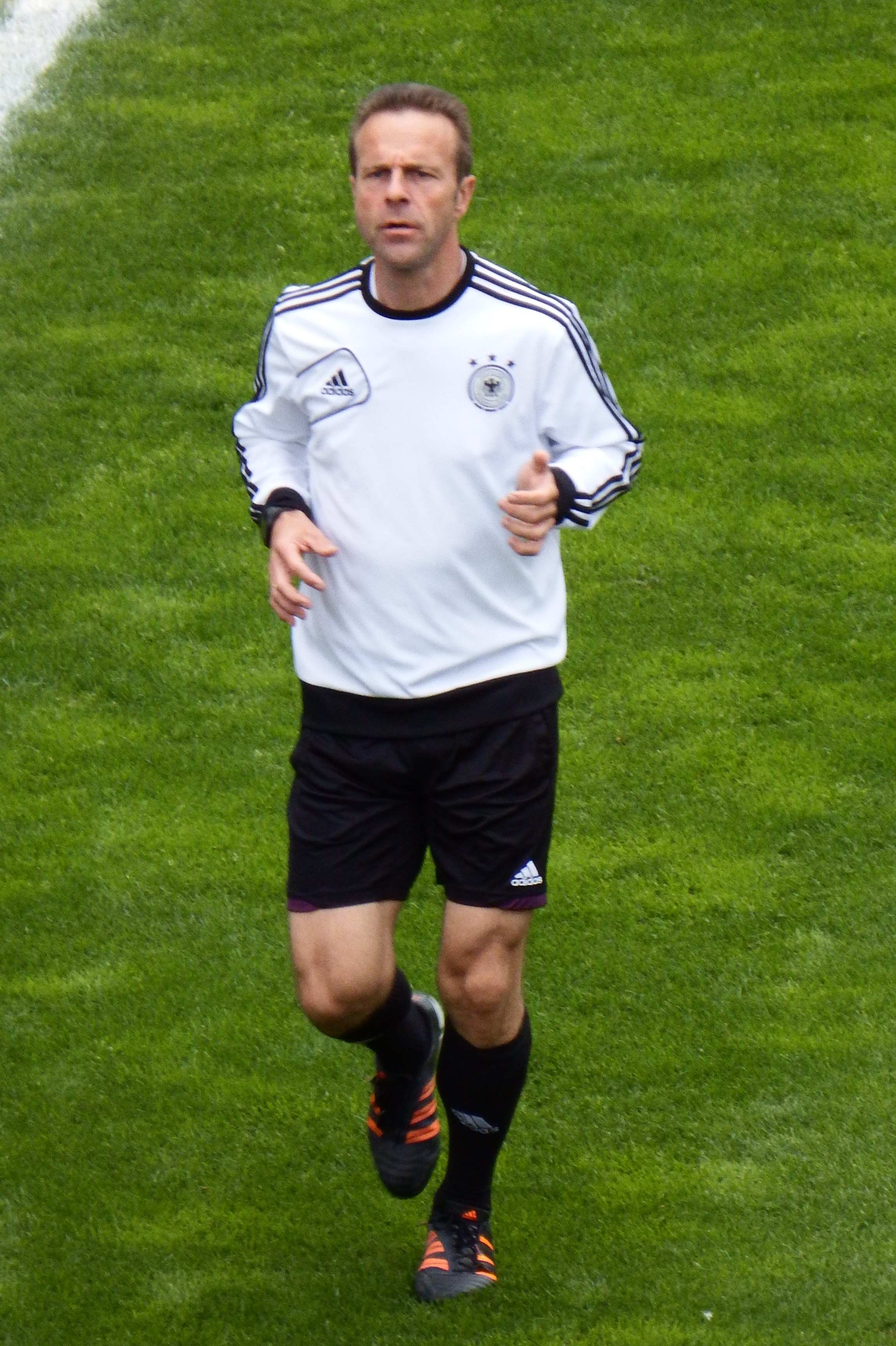 Peter Gagelmann, German soccer referee